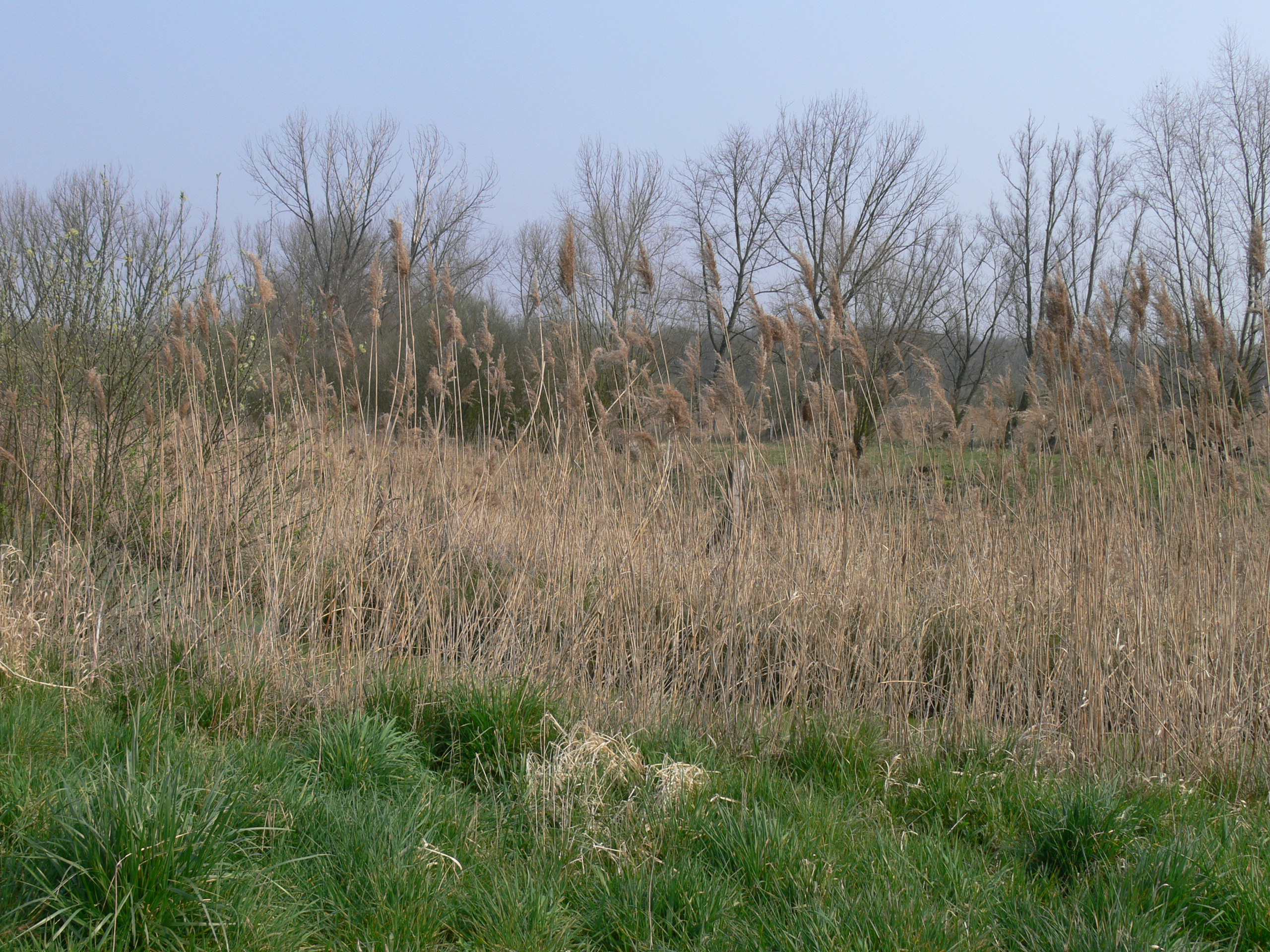 Bog of Vred, north of france, natural reserve.